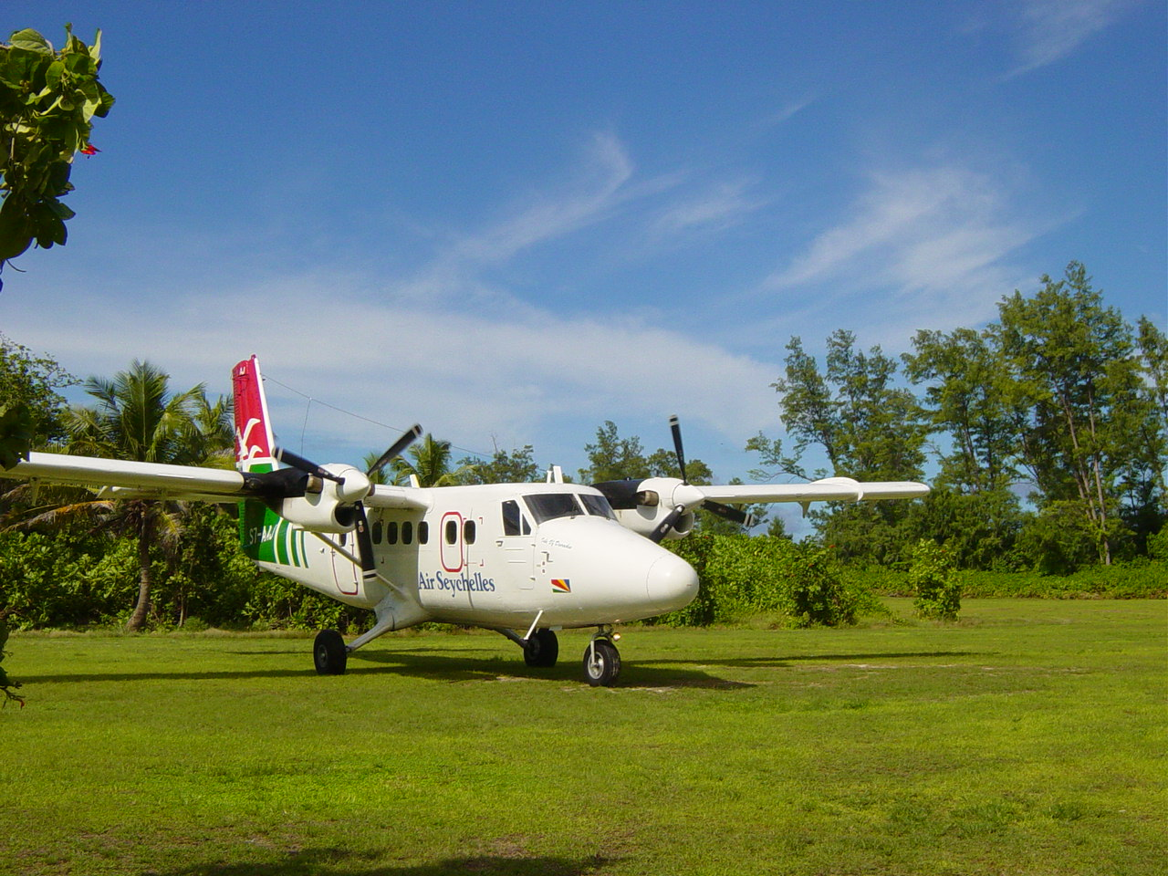 Air Seychelles aircraft on Bird Island Airport